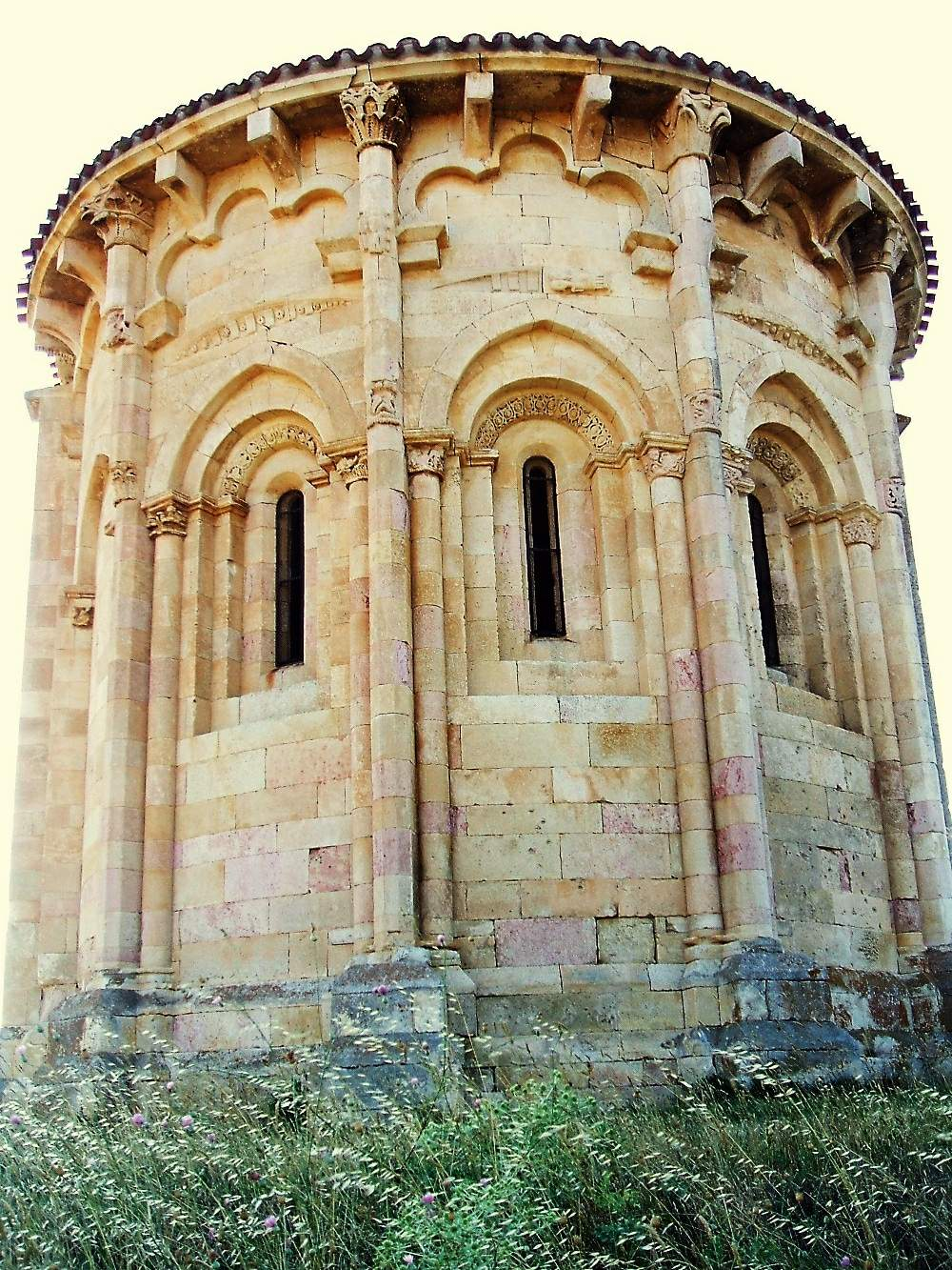 Iglesia de la Purísima Concepción, en San Vicentejo (Condado de Treviño)